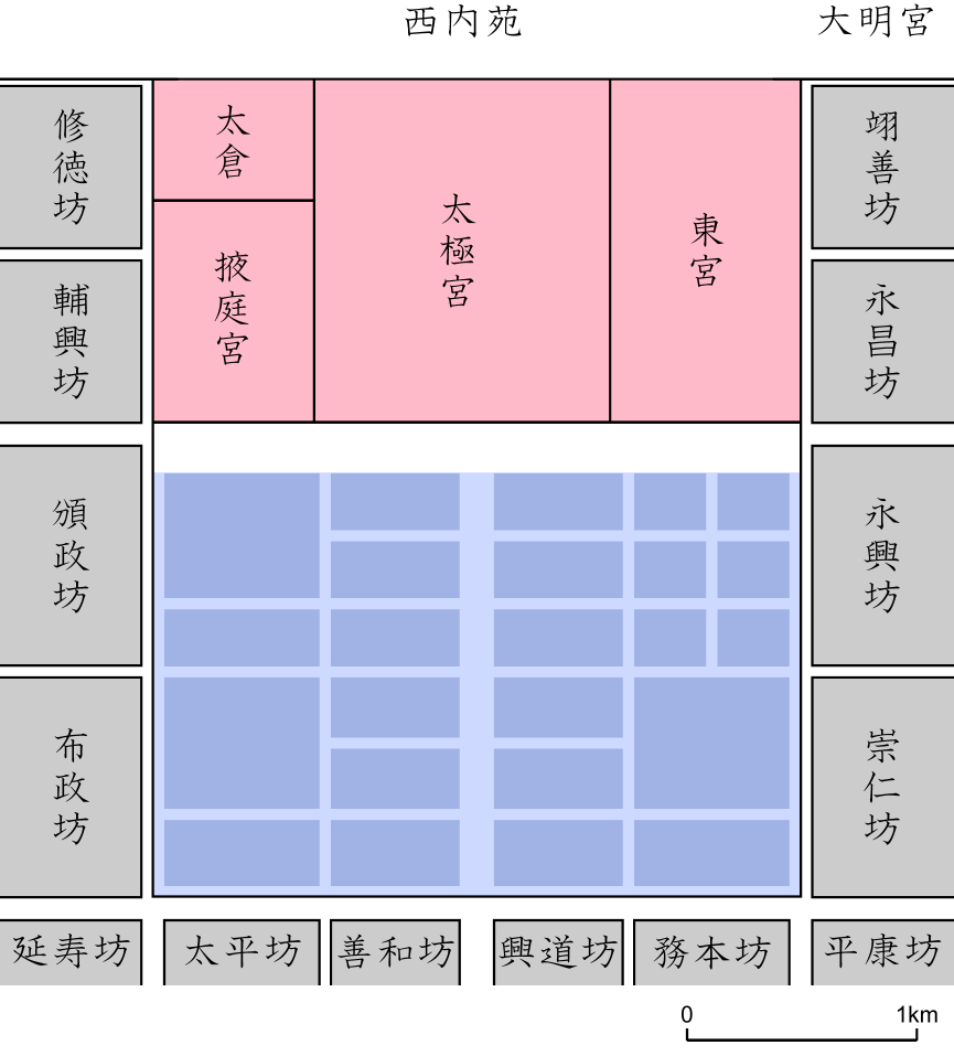 North center of Chang'an of Tang Dynasty. Red area is the palace where the Imperial Family lived, and blue area is government office area.